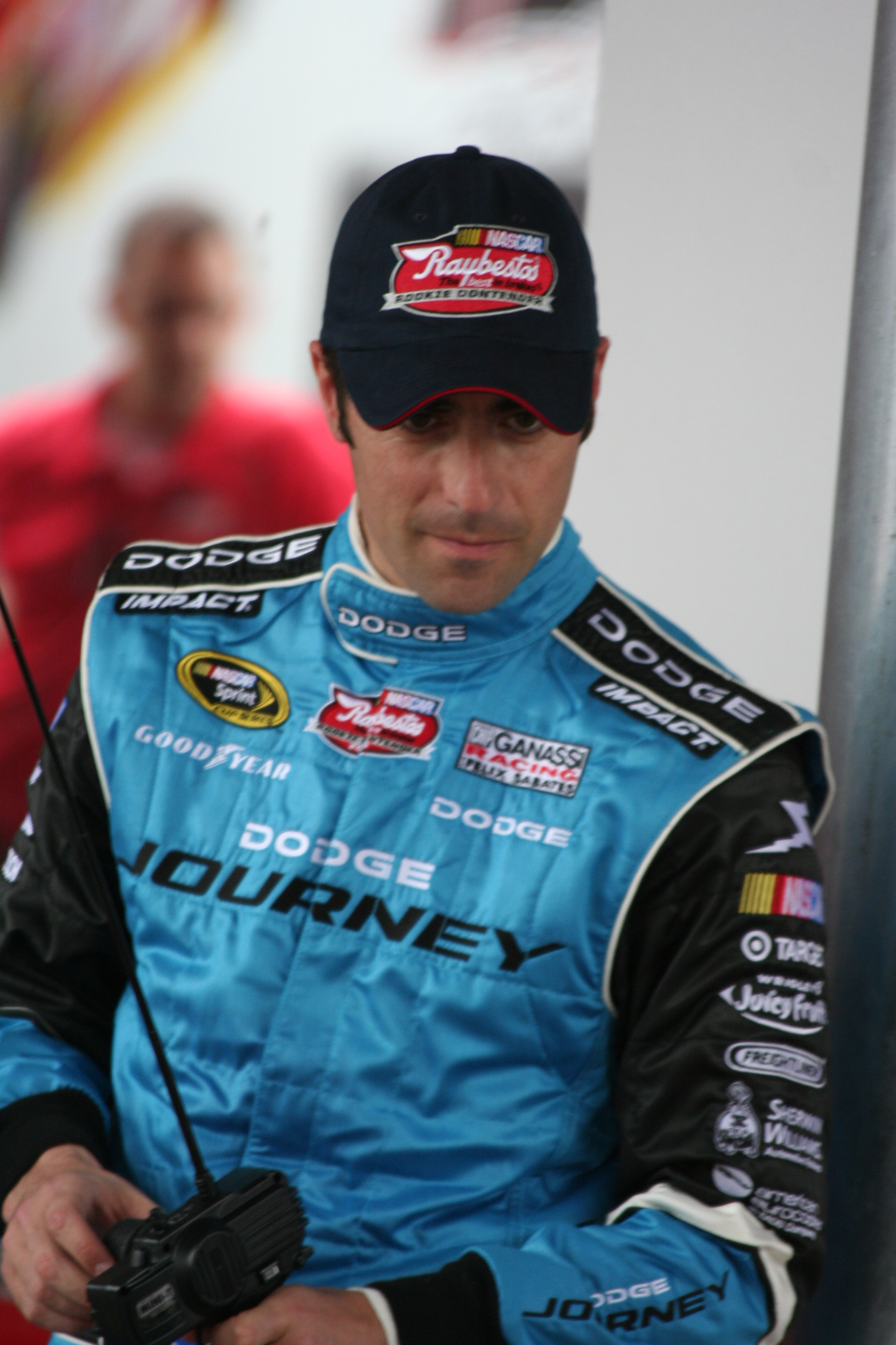 Shot by The Daredevil at Daytona during Speedweeks 2008